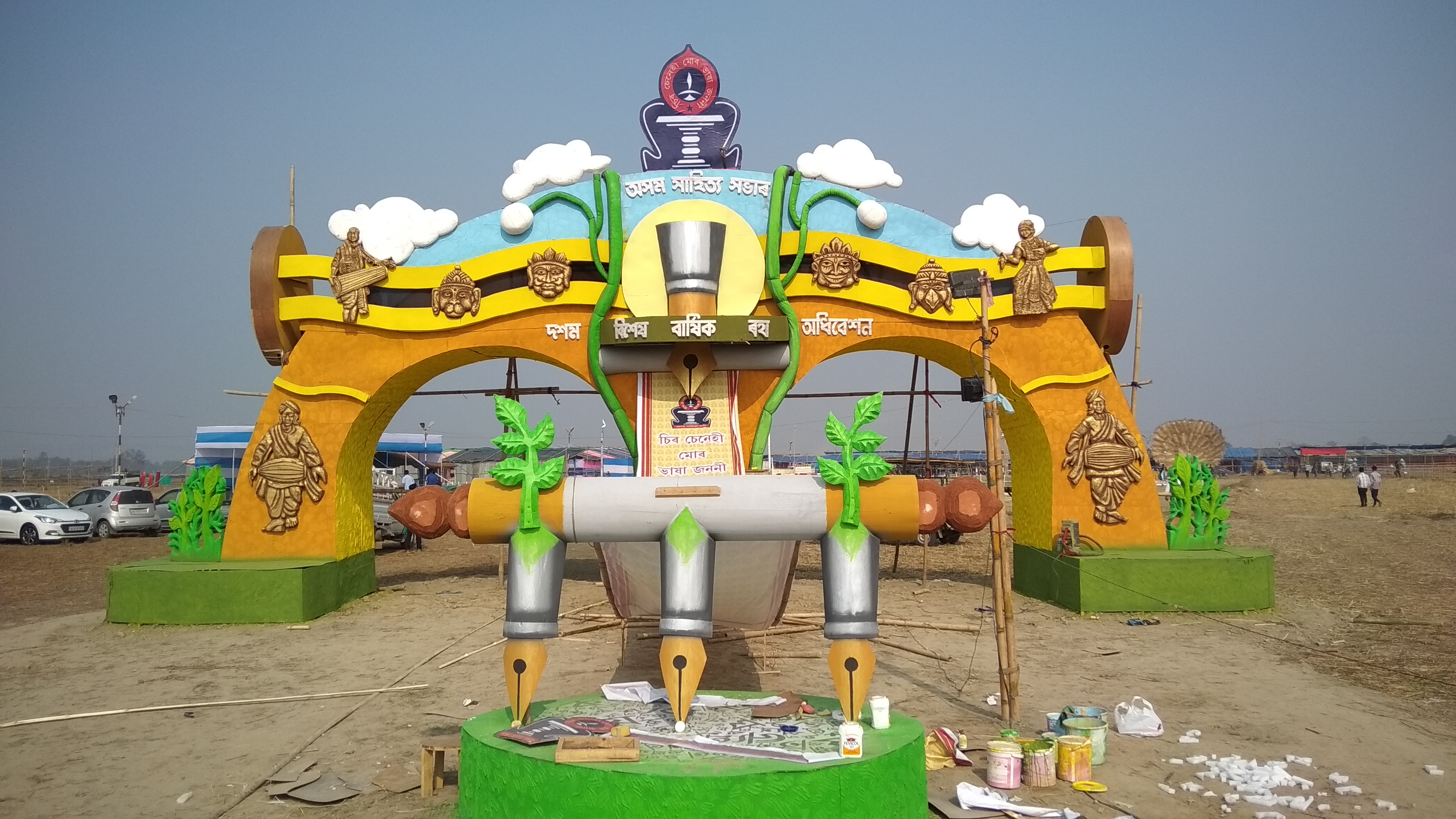 A picturesque image of the main entrance of the 10th Annual Special Convention of the Assam Sahitya Sabha held at Raha, Nagaon, on 1st, 2nd and 3rd of February,2019.